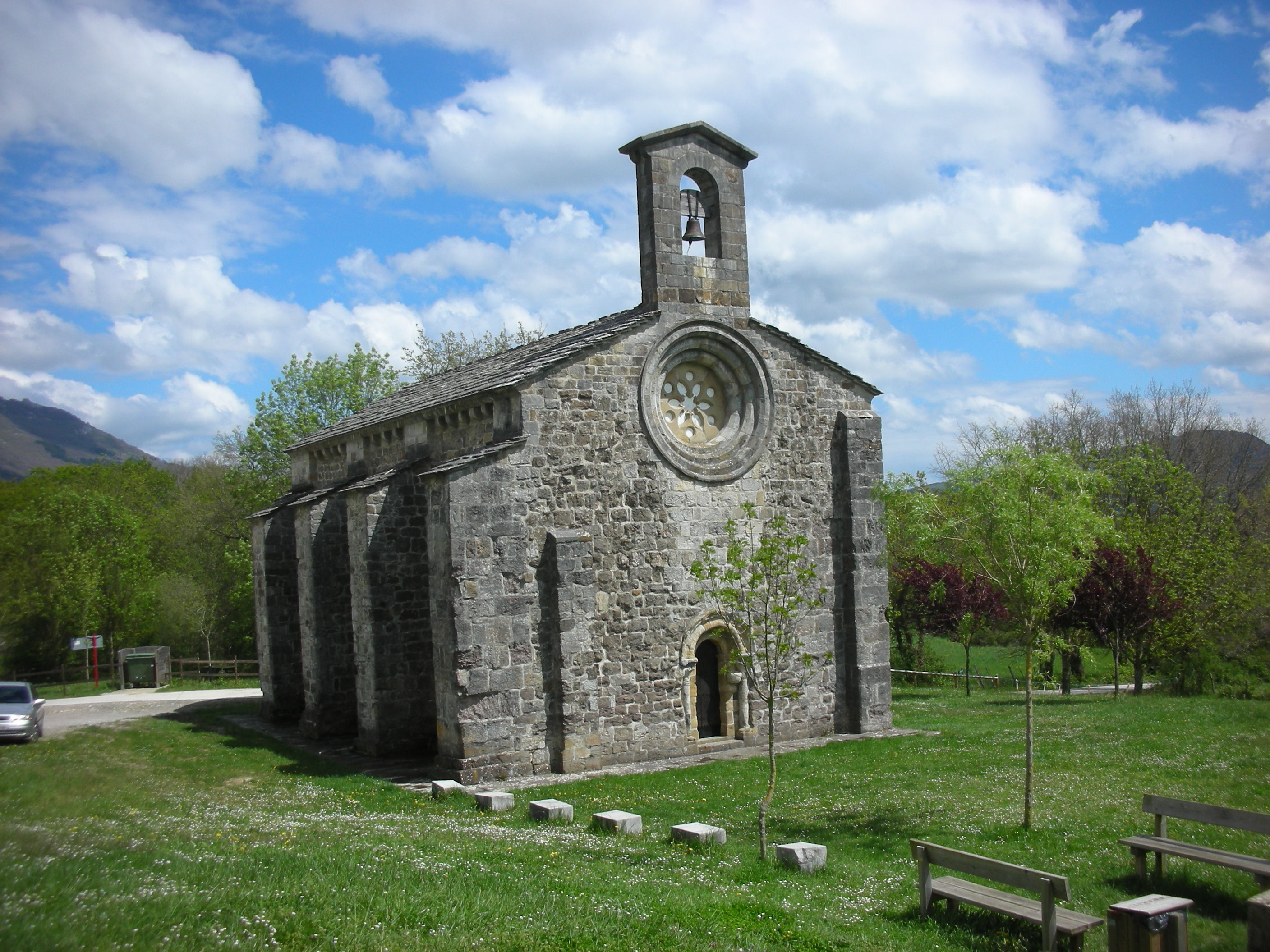 Roman Medieval church in Navarra